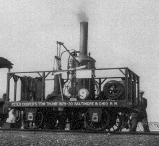 View of replica of the Tom Thumb, the locomotive built by Peter Cooper in 1830, and the first locomotive tested by the Baltimore and Ohio Railroad. The replica was built for the "Fair of the Iron Horse," an exhibition sponsored by the B&O in 1927. It is now on display at the Baltimore and Ohio Railroad Museum Cropped photo.